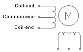 Unipolar stepper motor windings explained